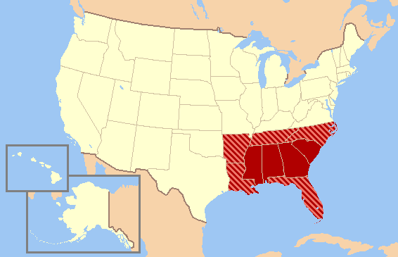 The maps series from the English wikipedia's Wikiproject: United States regions. The maps attempt to show, the various definitions of the regions without endorsing one over another.